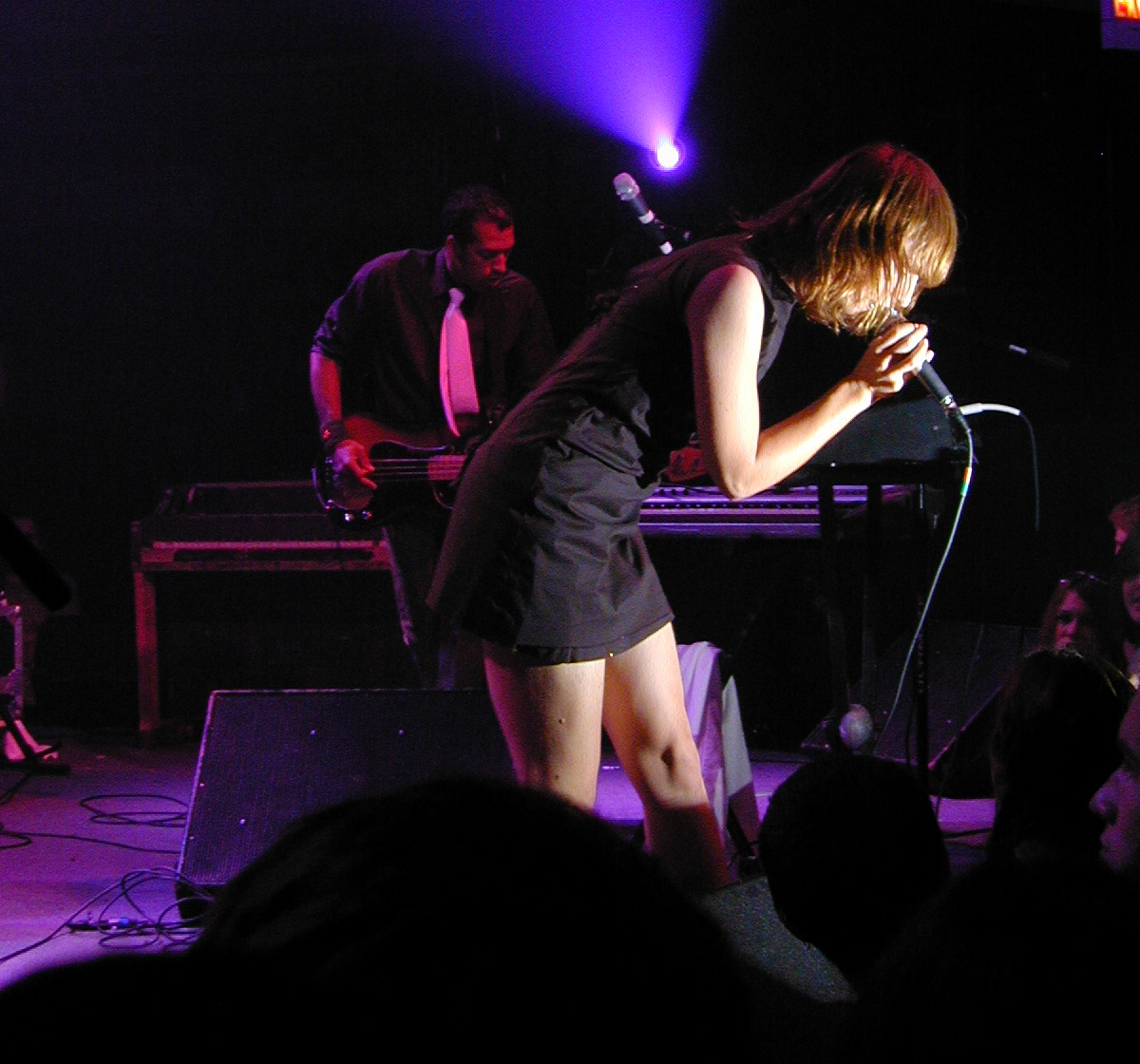 (the beautiful) Emily Haines of Metric at the 9:30 club (with Josh Winstead on the back rocking the bass)